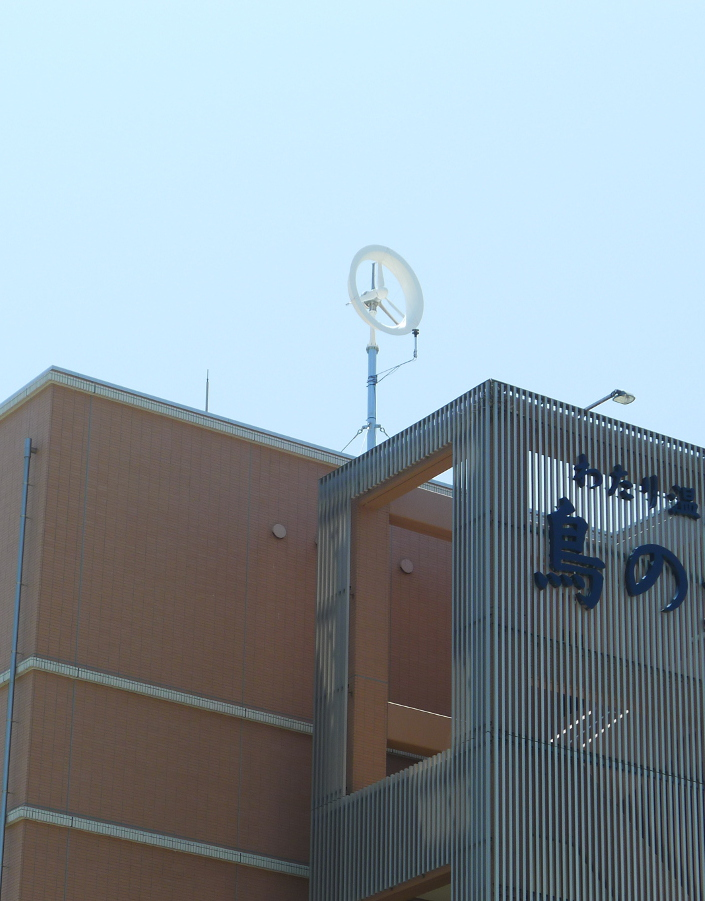 Turbine installed for a weather camera on a spa building in Miyagi, Japan. The camera system can be operated without power grid connection. It has a wind turbine and also solar panels connected to an array of rechargeable batteries.